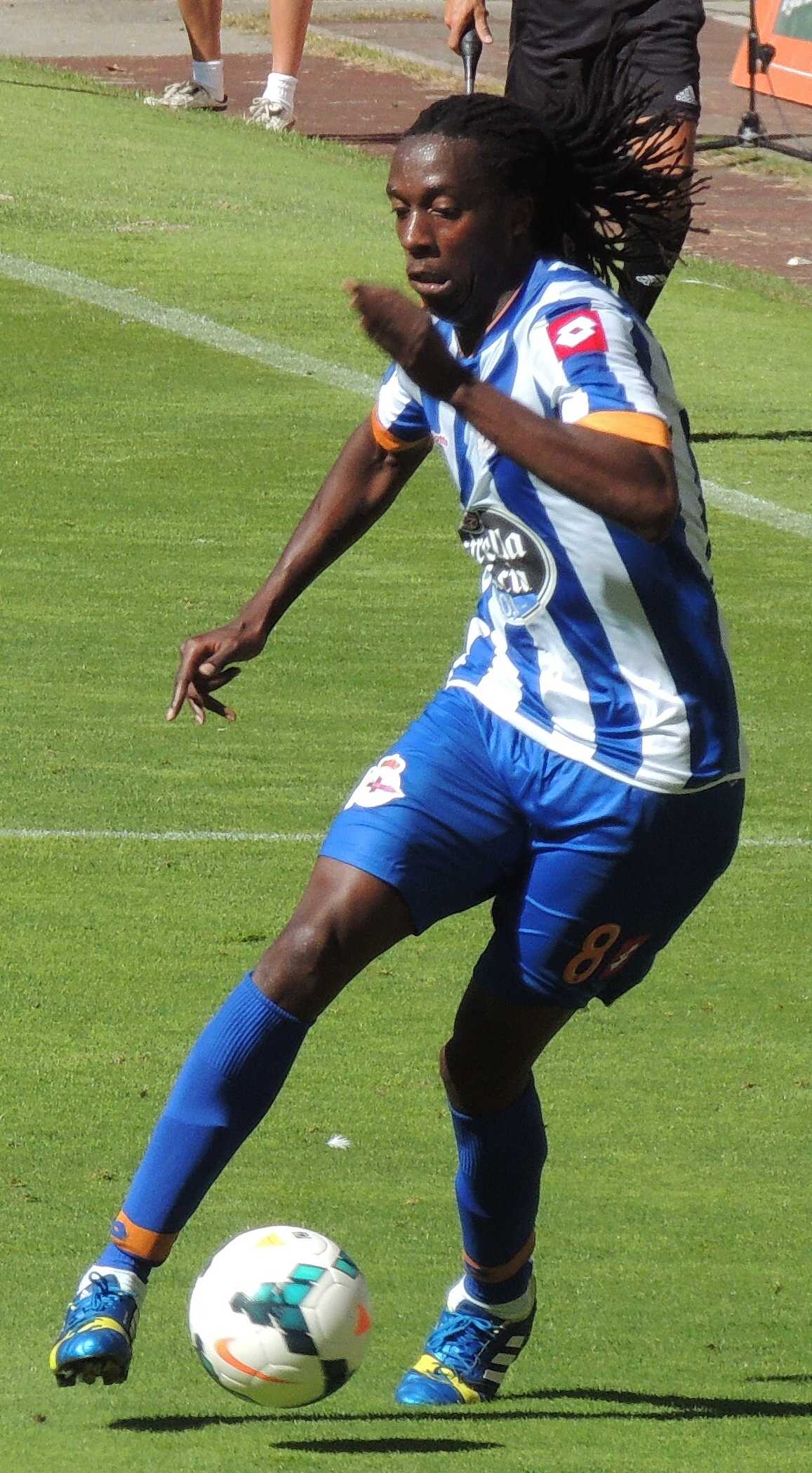 Carlos Wilson Cachicote "Rudy" playing for Deportivo de La Coruña in 2013. **cropped picture**